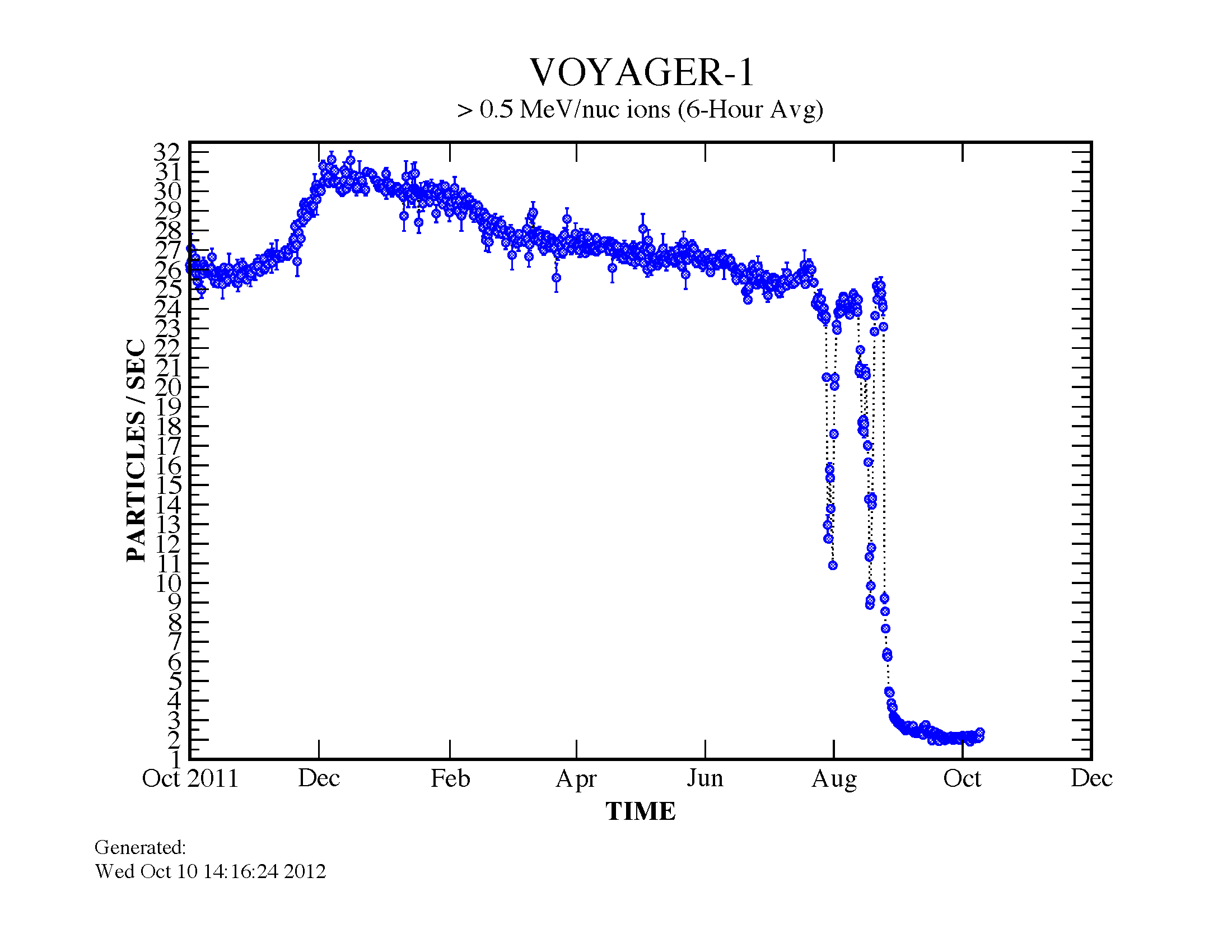 Readings from LA1 instrument on Voyager 1 consisting of collisions of greater than 0.5 MeV/nuc nuclei, principally protons, and is sensitive to low-energy phenomena in interplanetary space